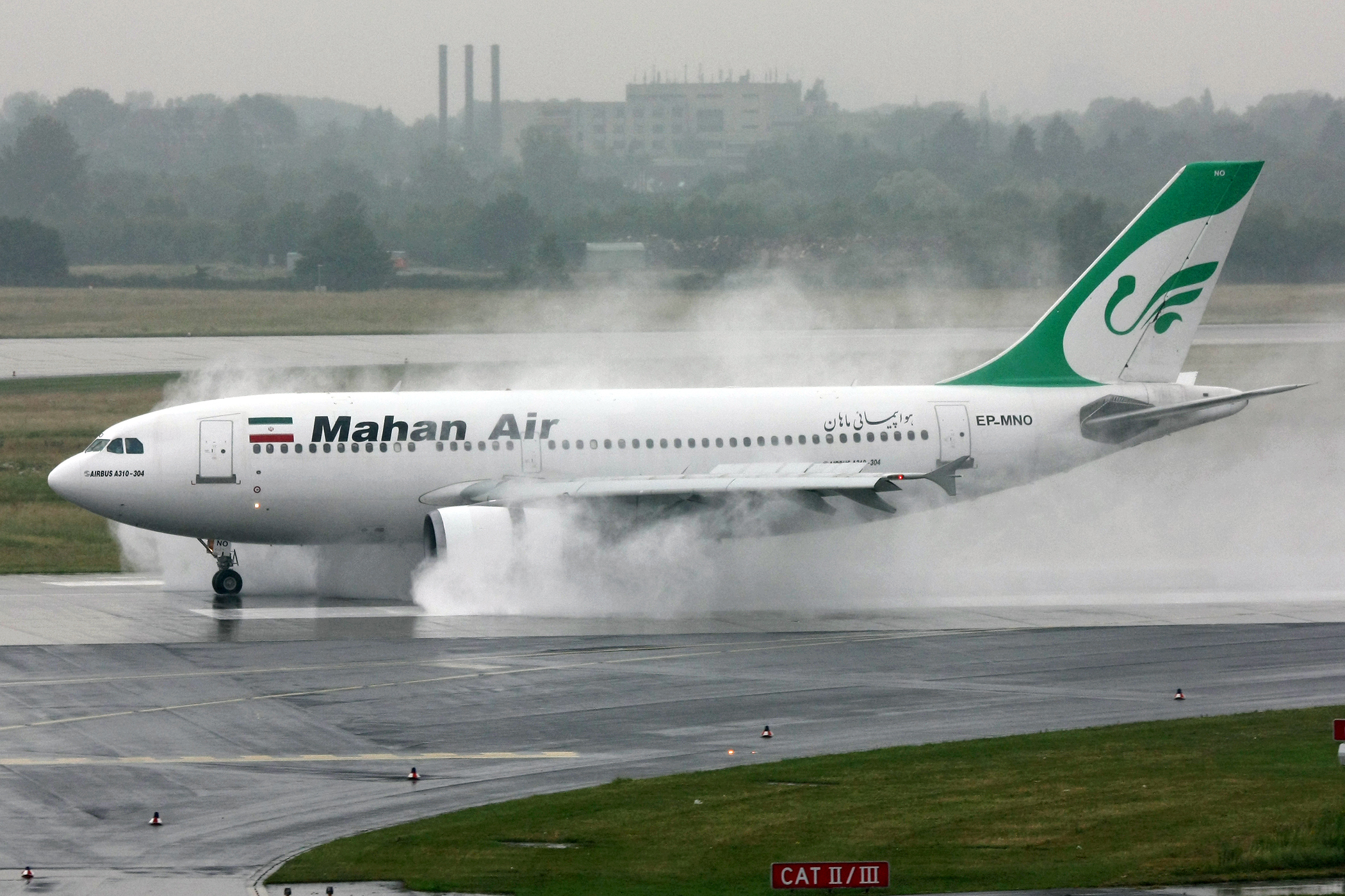 A Mahan Air Airbus A310 reverses in rainy weather at Düsseldorf (EDDL/DUS)